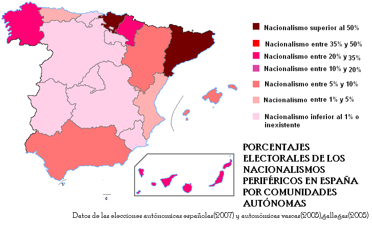 Pocentages of nationalist parties in Spain by autnonomous communitties.